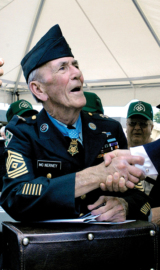 Colorado Springs Mayor Lionel Rivera shakes hands with Retired 1st Sgt. David H. McNerney, Medal of Honor recipient from the Vietnam War, after a barracks re-dedication ceremony at Fort Carson on July 19, 2007. McNerney received his medal for actions on March 22, 1967 at Polei Doc, Republic of Vietnam, while he was with the 1st Battalion, 8th Infantry, 4th Infantry Division.